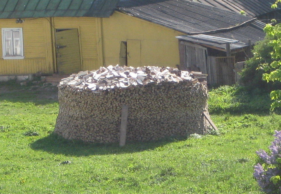 Cylindrical stack of firewood in the Izborsk fortress.